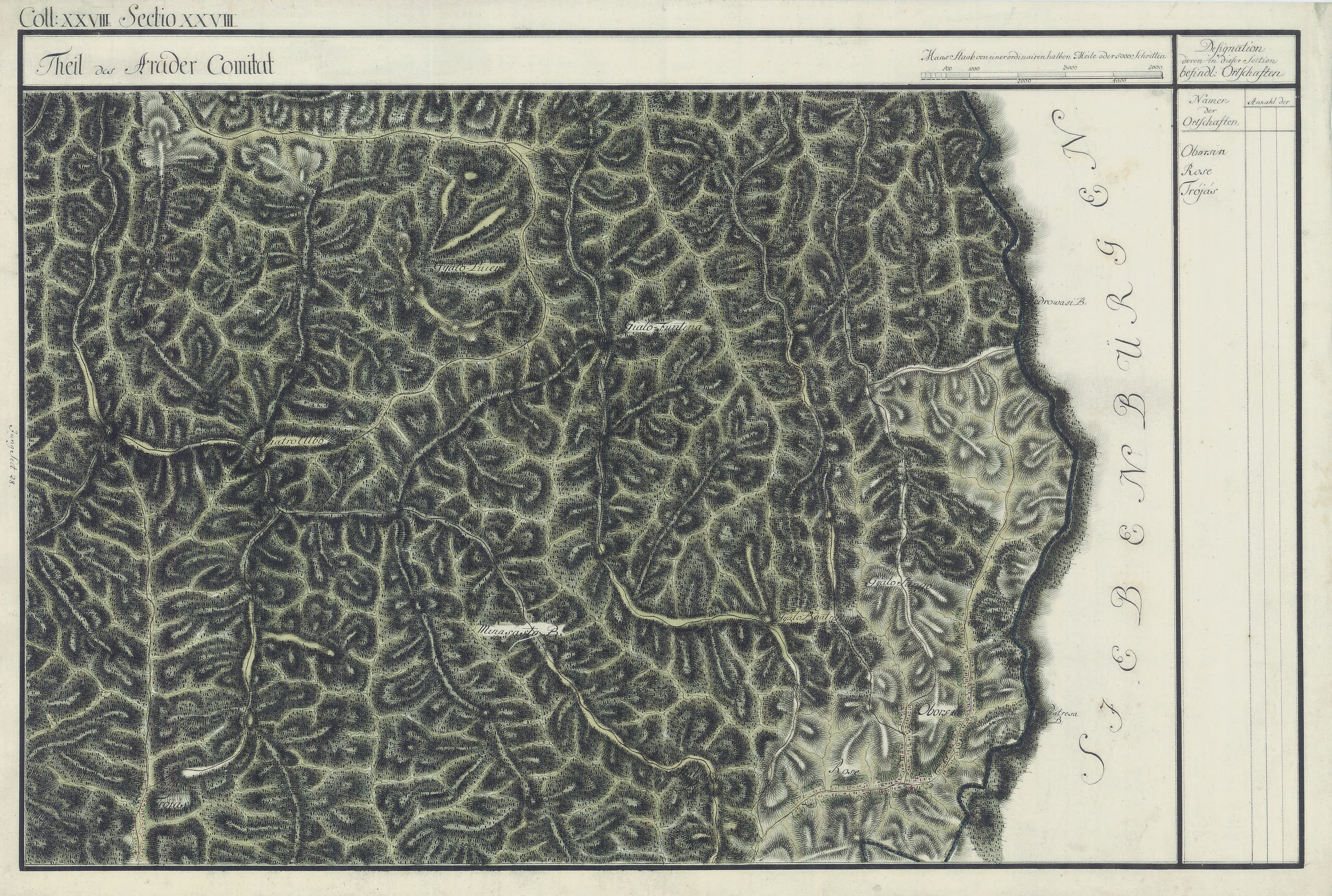 Arad County, 1782-85. Josephinische Landesaufnahme pg.28-28